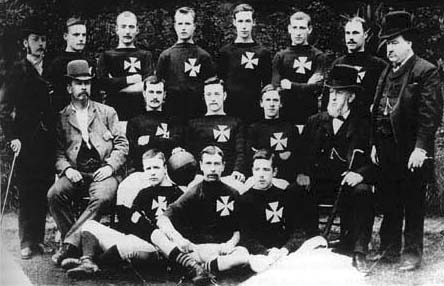 A photo of the St Marks (Gorton) football team in 1884. In accordance with section 12 of the UK Copyright, Designs and Patents Act 1988, and because the author of the original work is unknown, copyright expires seventy years after the work is first made available to the public. Thus 126 years have elapsed since the image was believed to have been taken sometime from 1880-1884